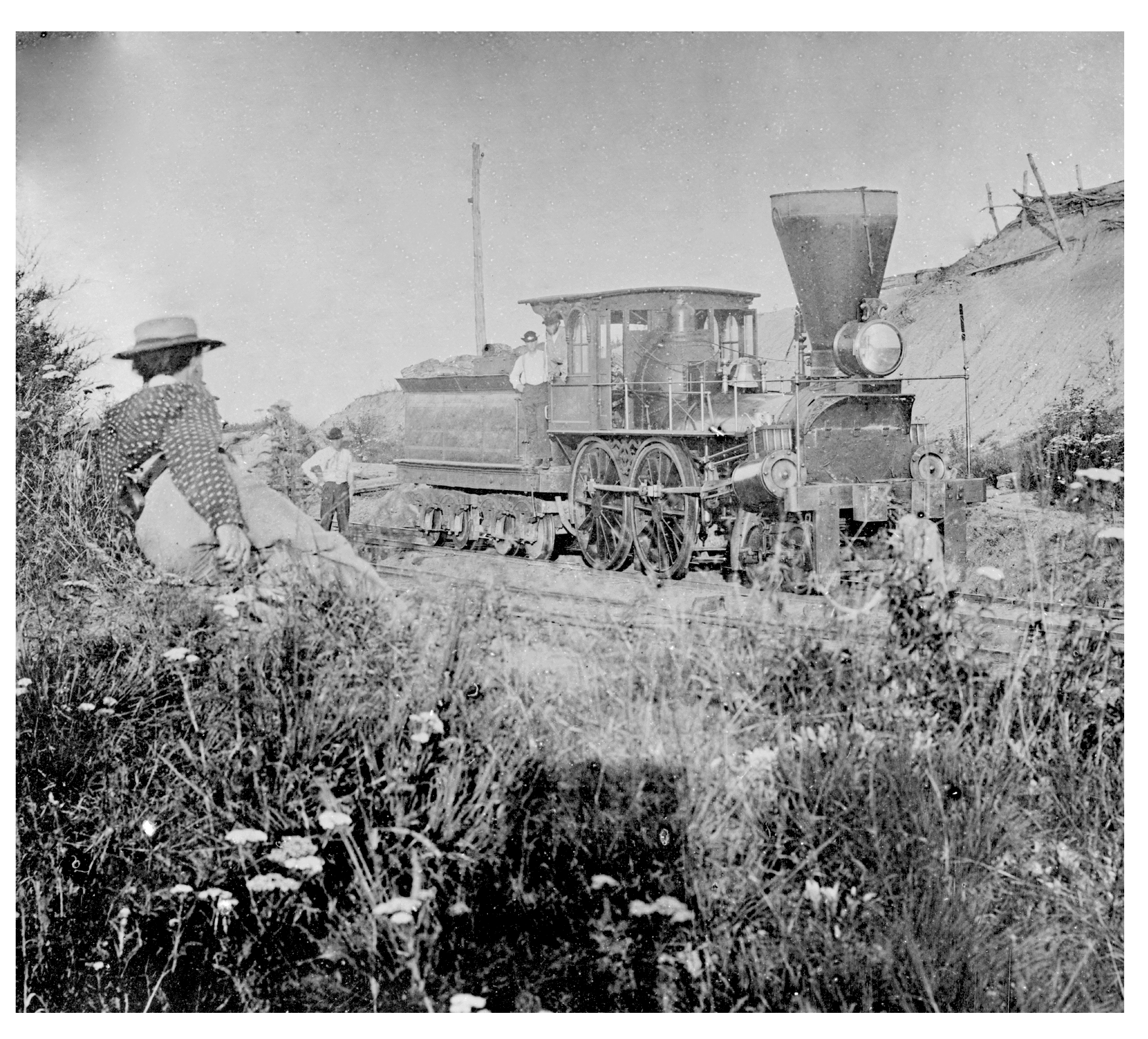 Rework of a public domain image ....